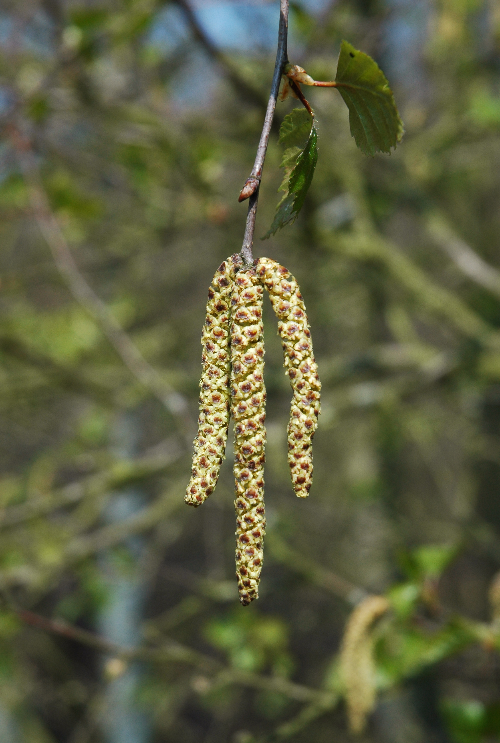 Male catkins of the Silver Birch (Betula pendula) in Spring